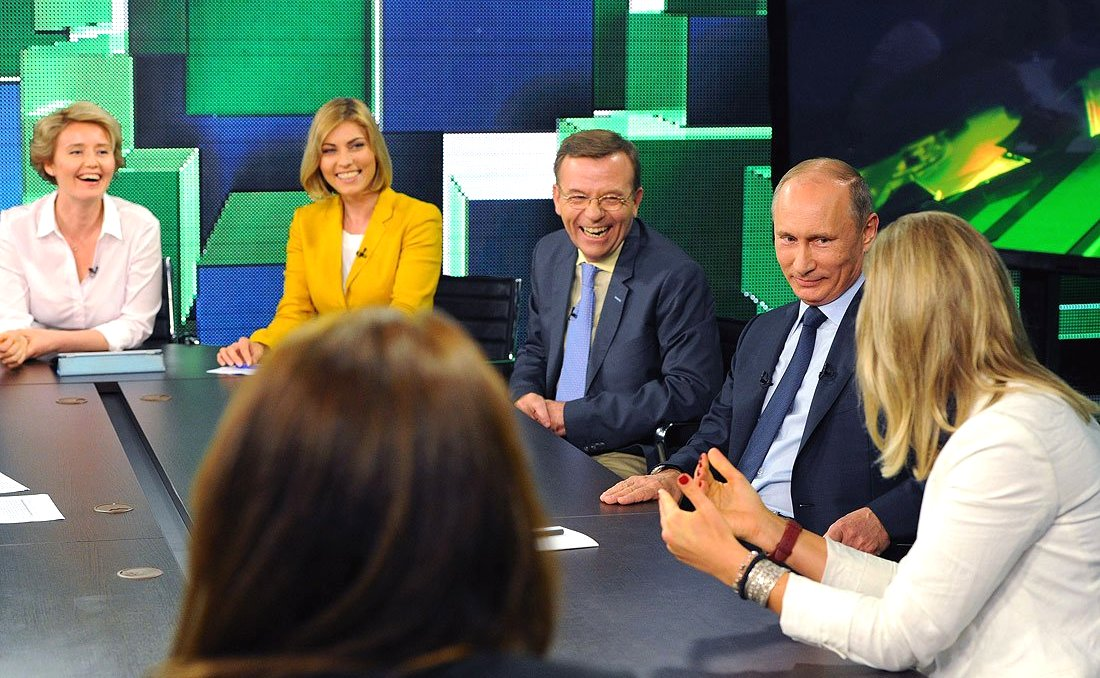 Vladimir Putin visited the new Russia Today broadcasting centre and met with the channel's leadership and correspondents